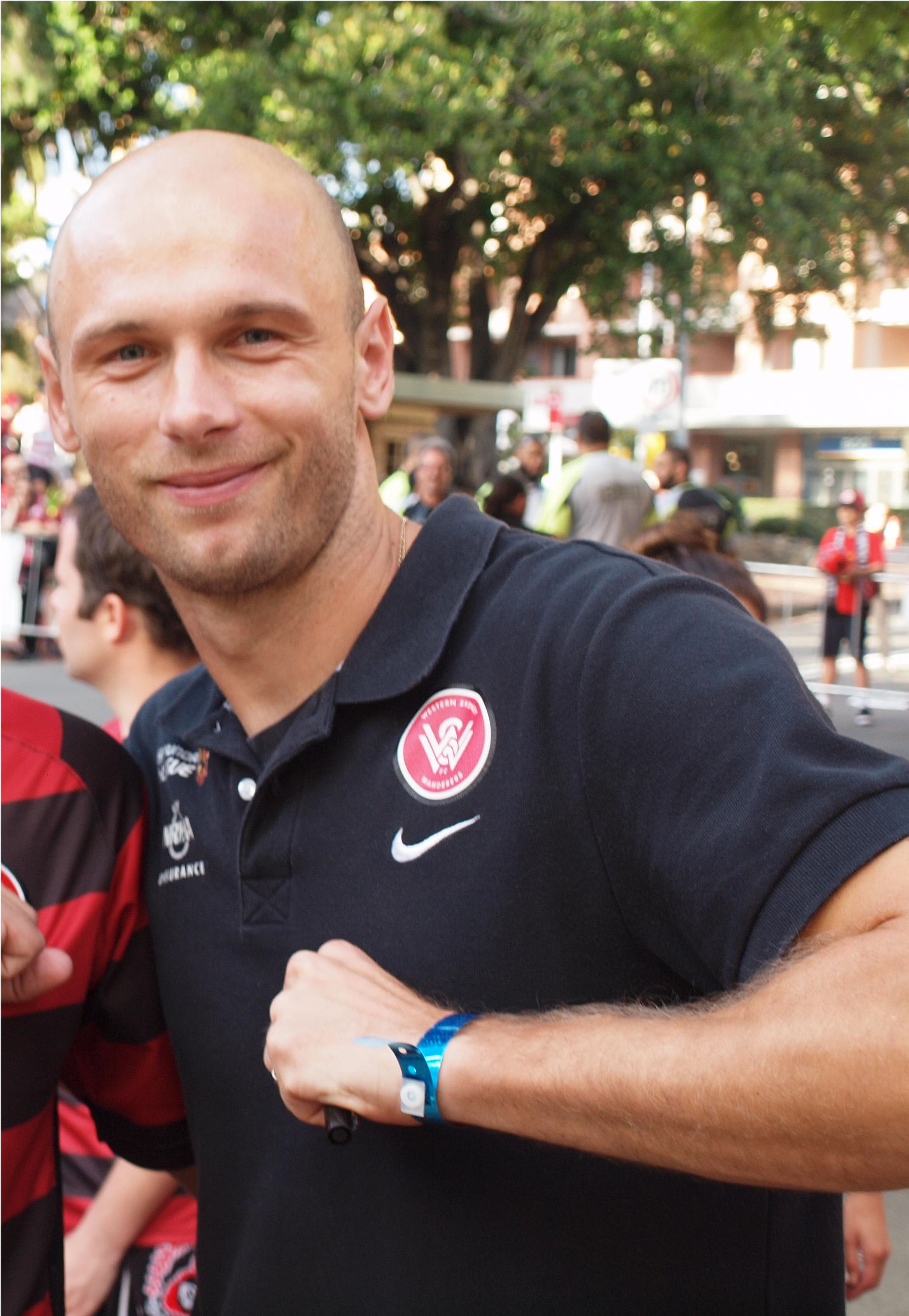 Kresinger pumping the crest. An action that became synonymous with the Croatian amongst the fans during his time at the Western Sydney Wanderers.